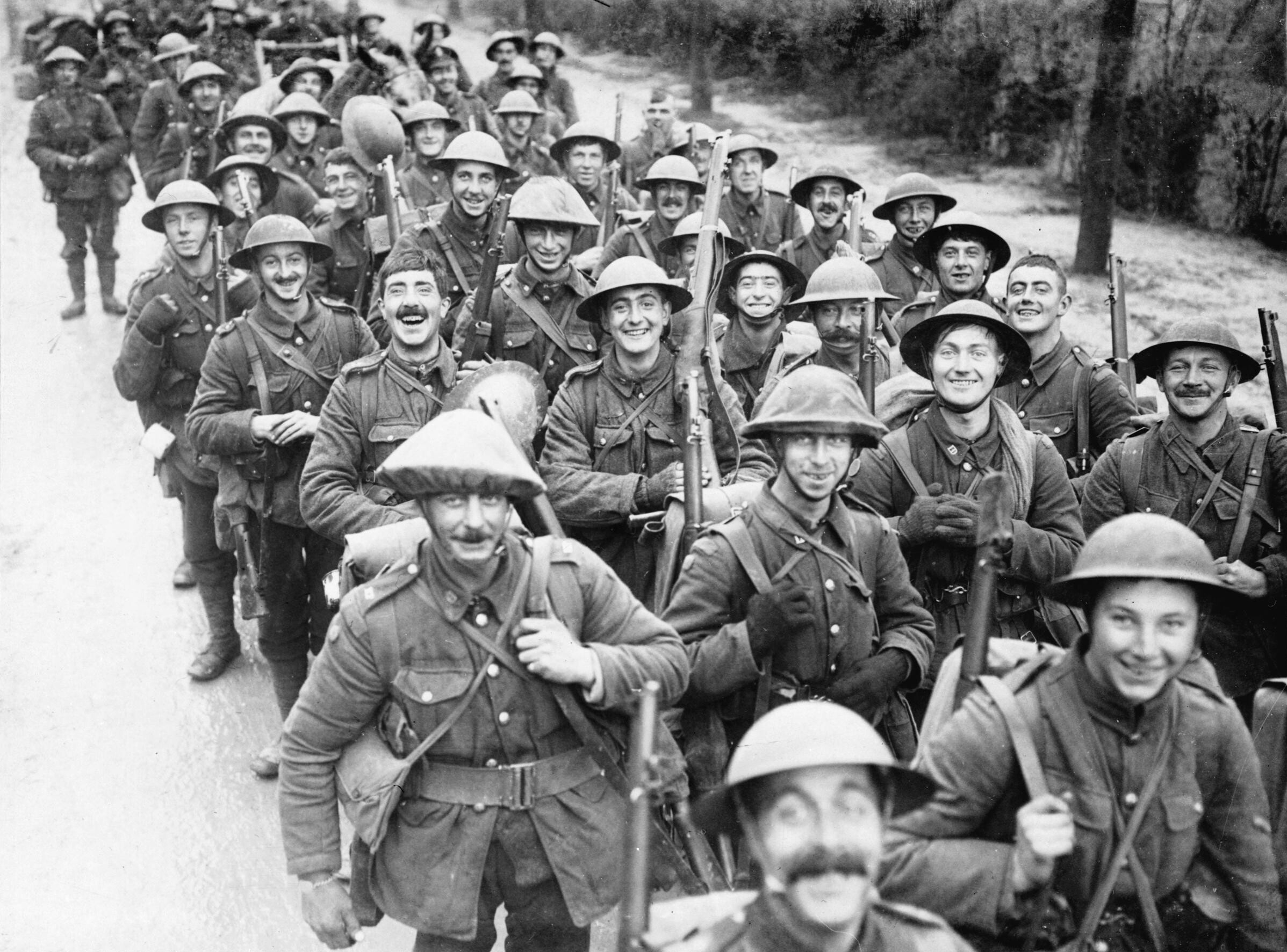 The Battle of the Somme, July-november 1916 Troops of the 10th Battalion, Royal Fusiliers (37th Division) marching to the trenches, St Pol (Saint-Pol-sur-Ternoise), November 1916.